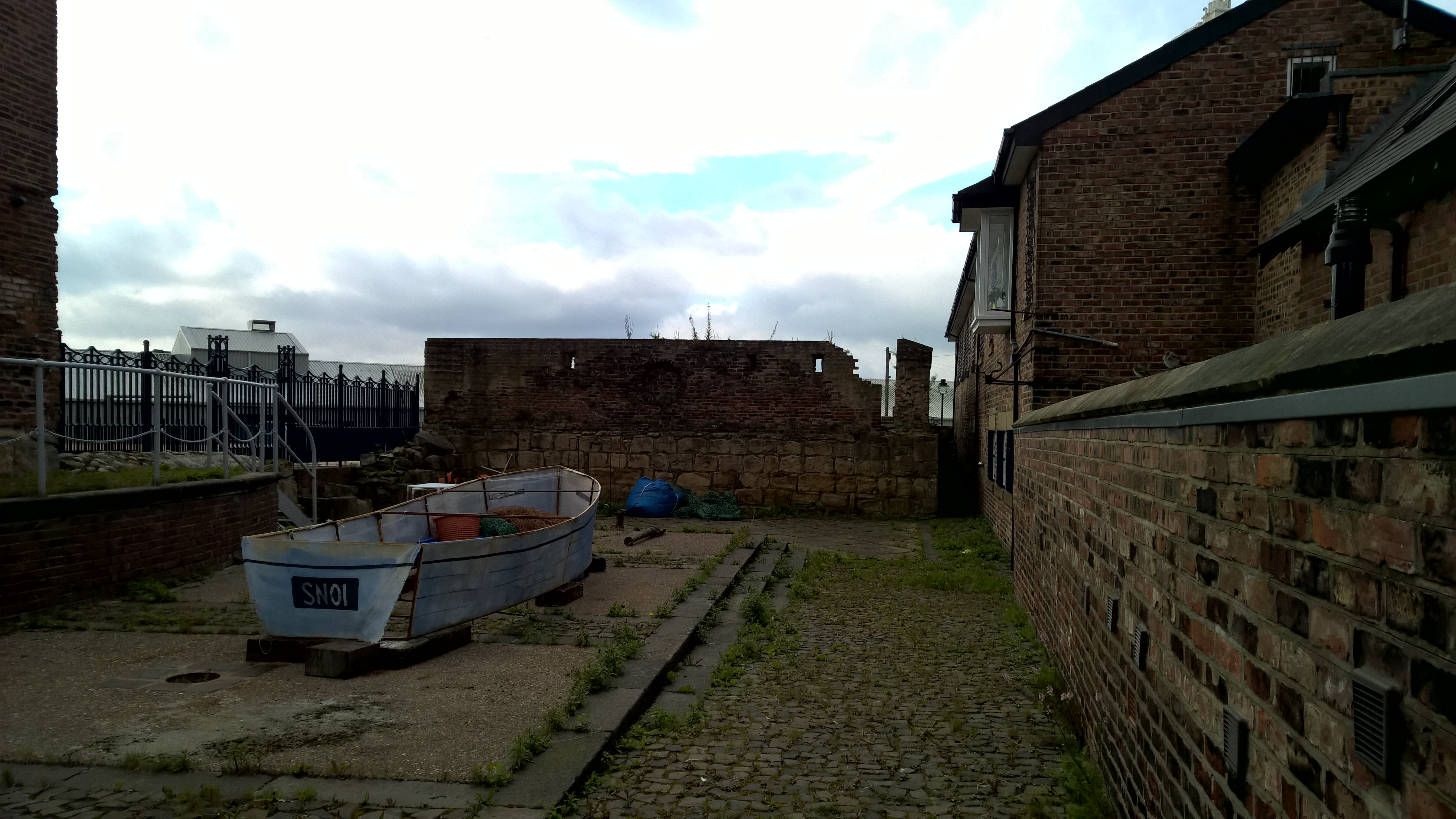 Clifford's Fort was built in 1672 to defend the River Tyne during the Dutch Wars. Fort wall, sandstone ashlar and brick. There was a poster on the left which gave access to the Low Light which was enclosed when the fort was built.